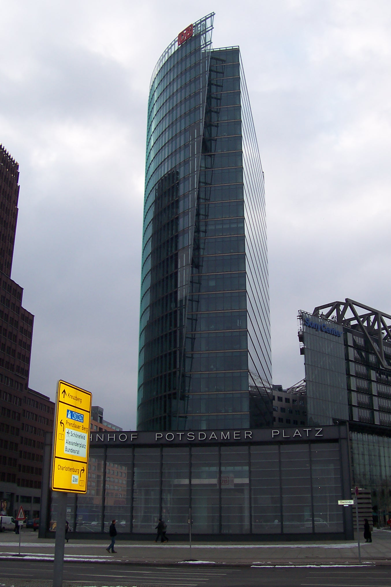 Trainstation on Potsdamer Platz